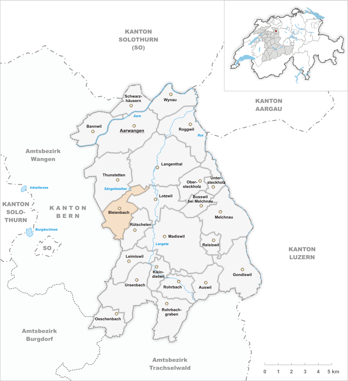 Municipality Bleienbach